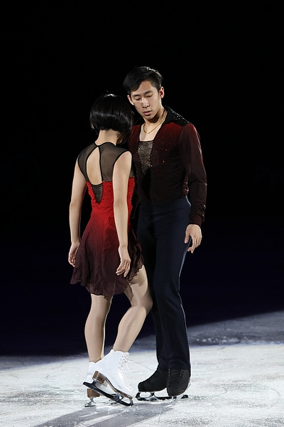 Gala exhibition at the 2018 Winter Olympics